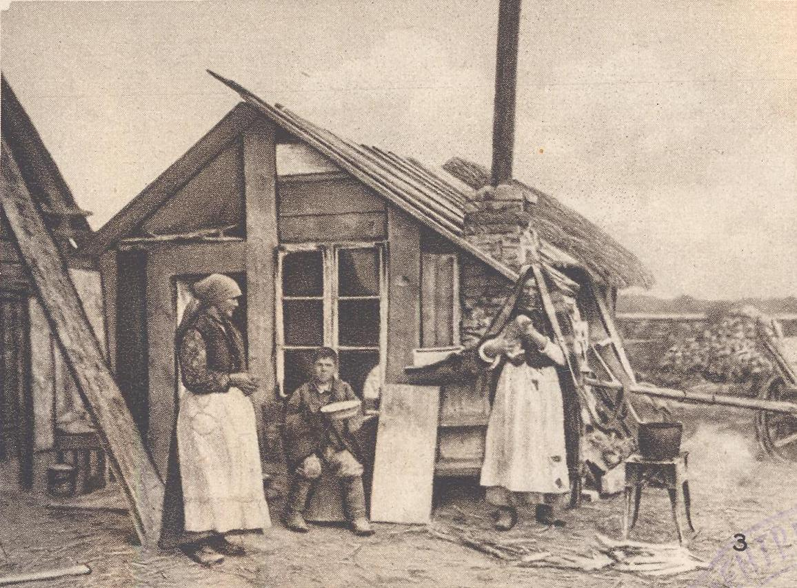 Life in Warsaw and Environments since the German Occupation. Peasants House built of Wreckage Material. "Album de la Grande Guerre" №10, 1915